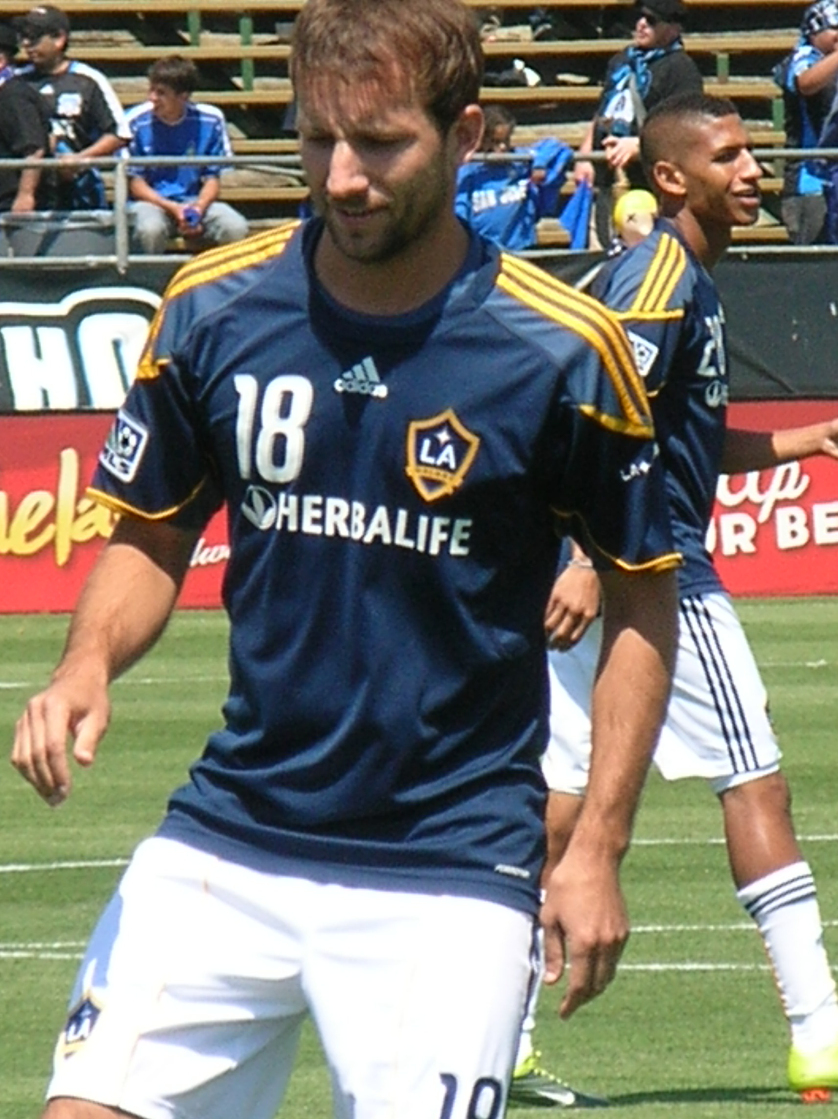 LA Galaxy player Mike Magee at an away game against the San Jose Earthquakes. The Earthquakes won 1-0.